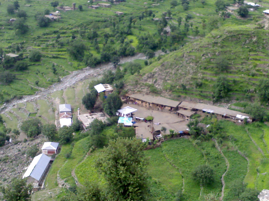 It is the photograph of Shaikhdara Dubair District Kohistan Pakistan